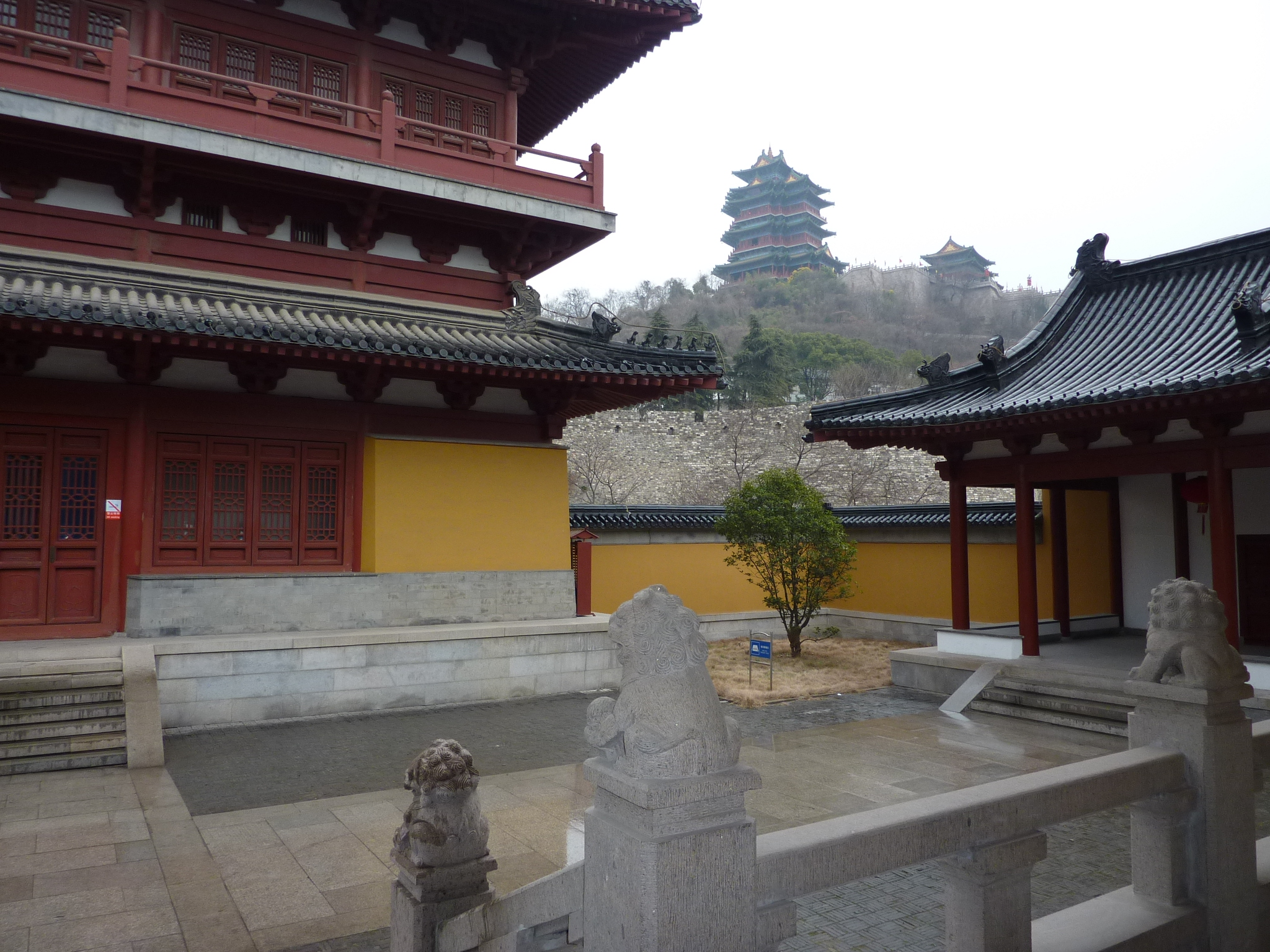 On the grounds of the Jinghai Temple, Nanjing, with the Yuejiang Lou on the horizon.